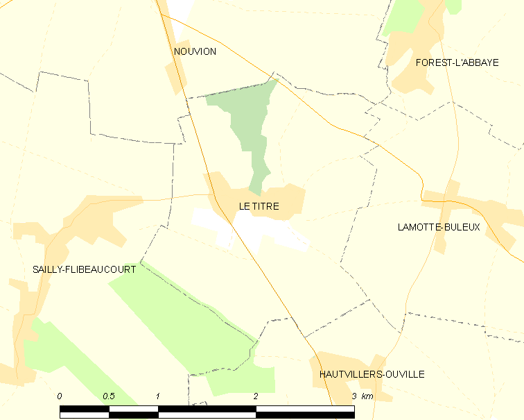 Map of French municipality Le Titre